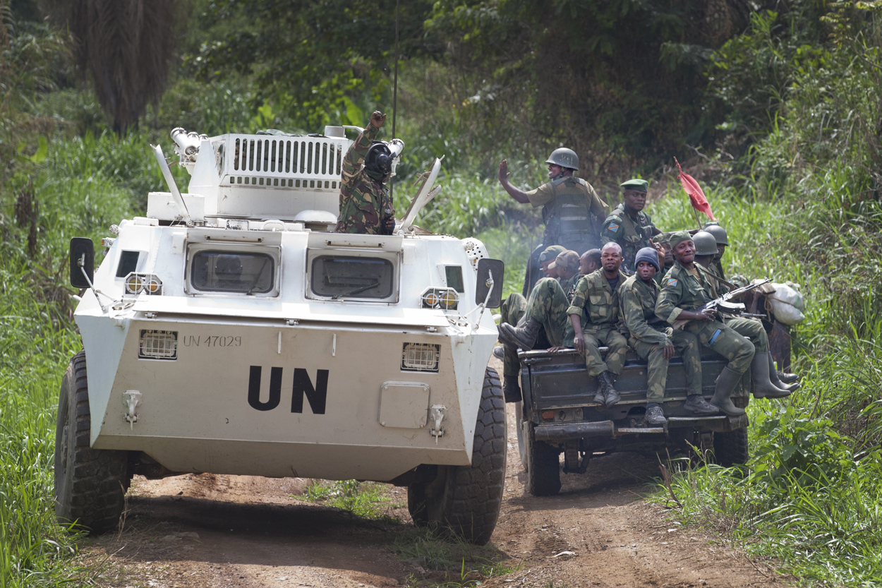 A MONUSCO APC is greeted by FARDC soldiers on their way back from the front line in the Beni region where the UN is backing the FARDC in an operation against ADF militia, the 13th of March 2014. © MONUSCO/Sylvain Liechti